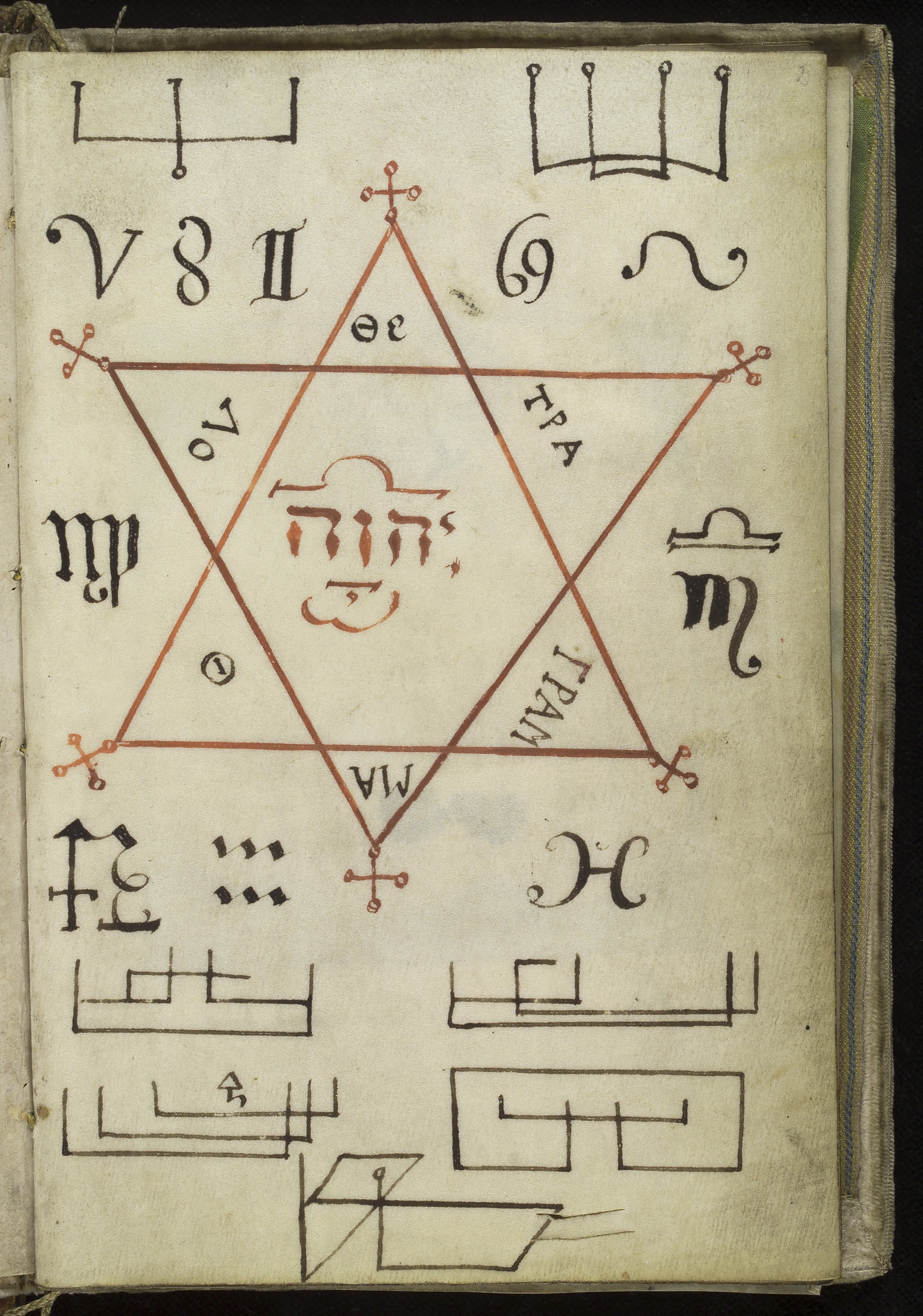 Illustration in black and red ink showing the Seal of Approbata - a six-pointed star surrounded by alchemical and magical symbols. From Cyprianus, 18th century. Cyprianus is also known as the Black Book, and is the textbook of the Black School at Wittenburg, the book from which a witch or sorceror gets his spells. The Black School at Wittenburg was purportedly a place in Germany where one went to learn the black arts. Archives & Manuscripts Keywords: Occult; Star; Talismans; Demon; Alchemy; Magic; Demonology; M L Cyprianus